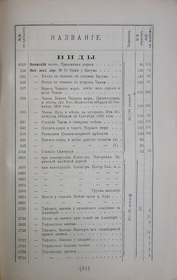 D. Ermakov, I Catalog, page 95